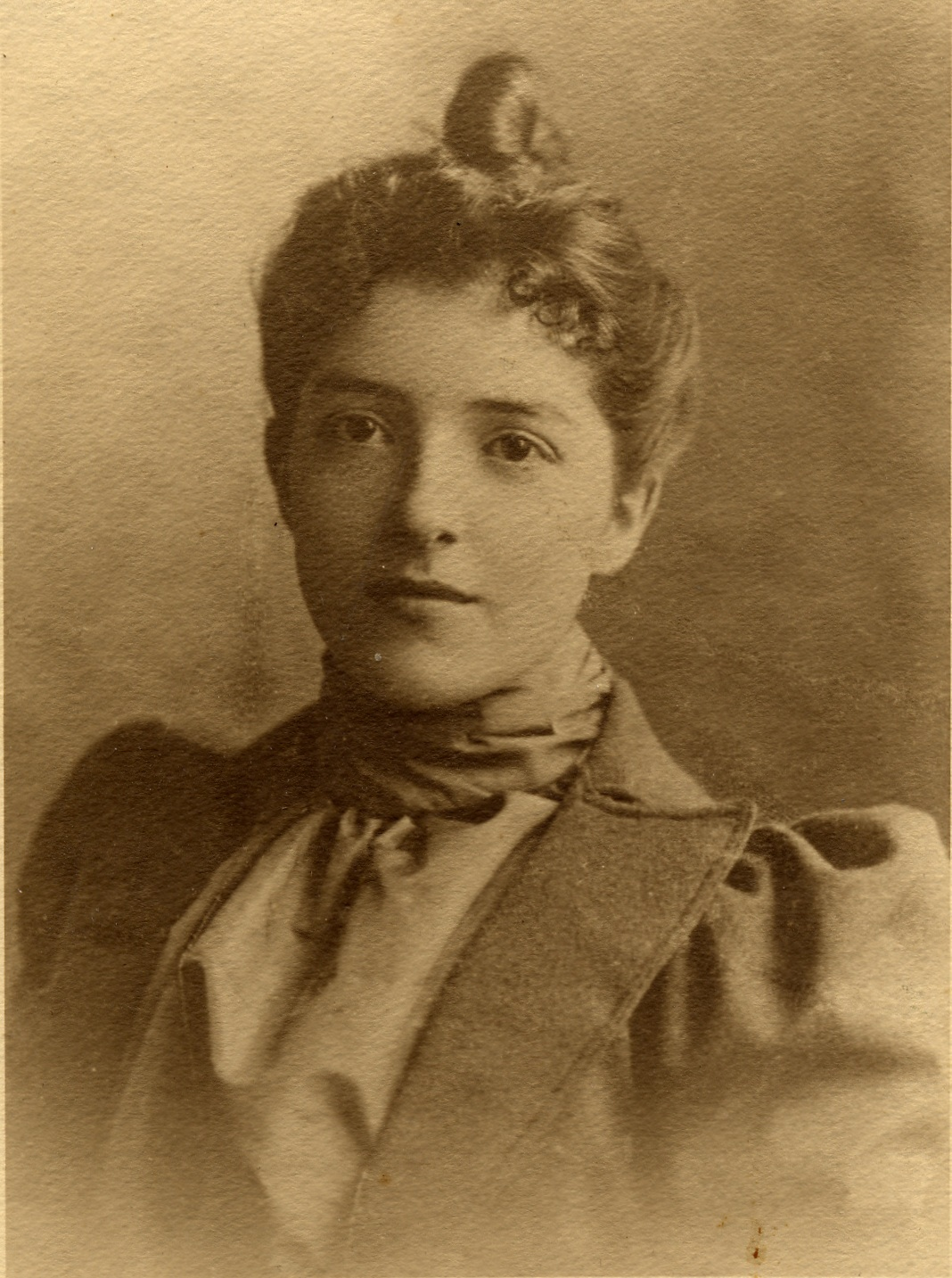 This digitalized photograph is part of MY personal collection of family pictures, and it shows my great great grandmother Izola Forrester. (comment added: Revision as of 16:59, 24 June 2006: Mwanner (talk · contribs) This image is almost certainly PD-- either PD-US if it was published pre-1923, or PD-old, as it is not probable that the photographer died 100 years ago. The uploader seems to have left the project, but it would seem a shame to delete this.